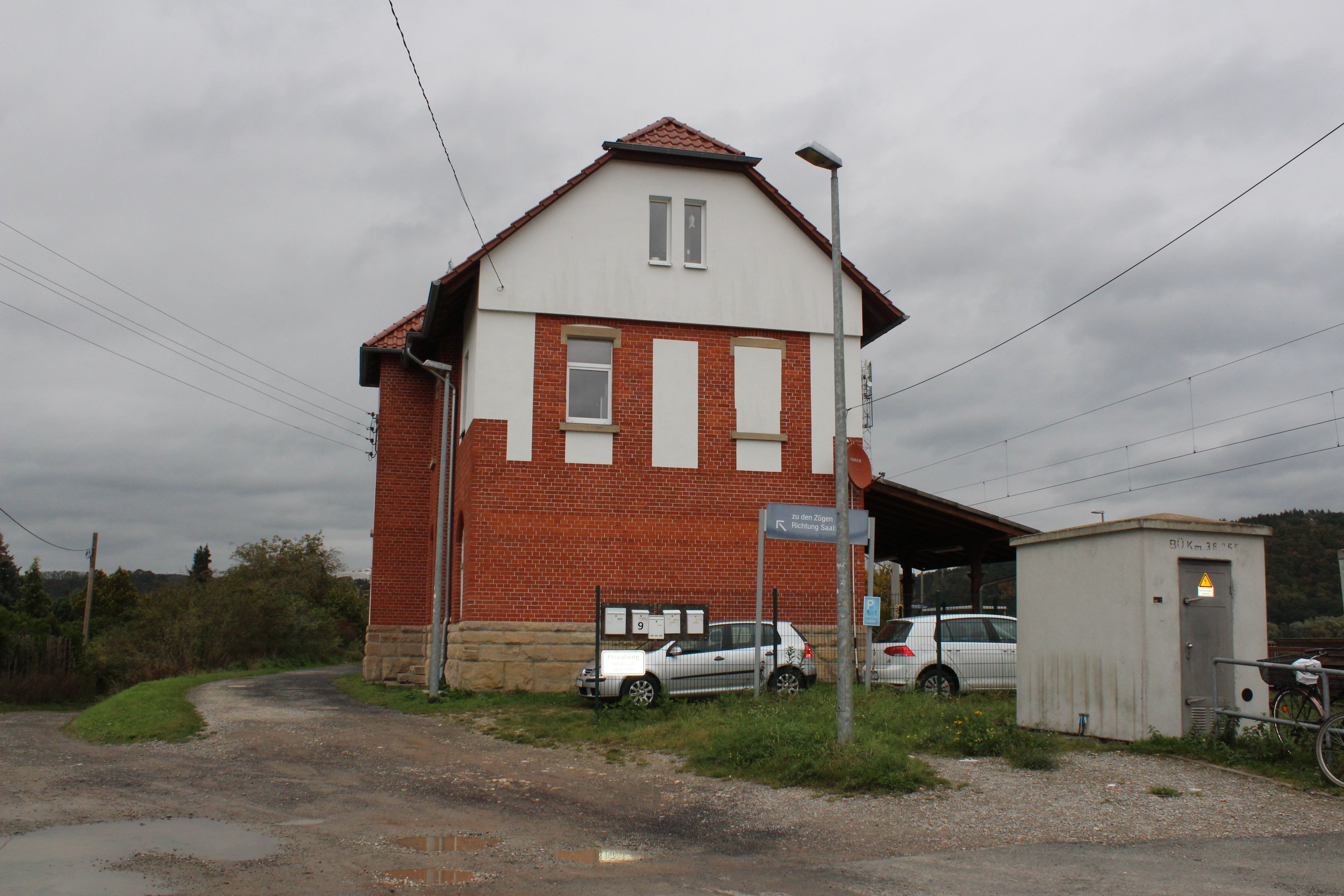 train station Rothenstein (Saale), station building